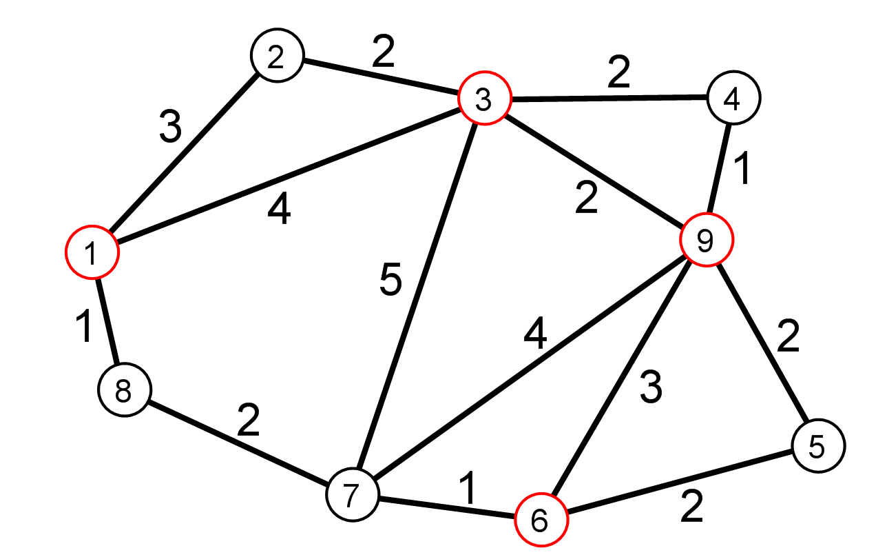 Route inspection problem